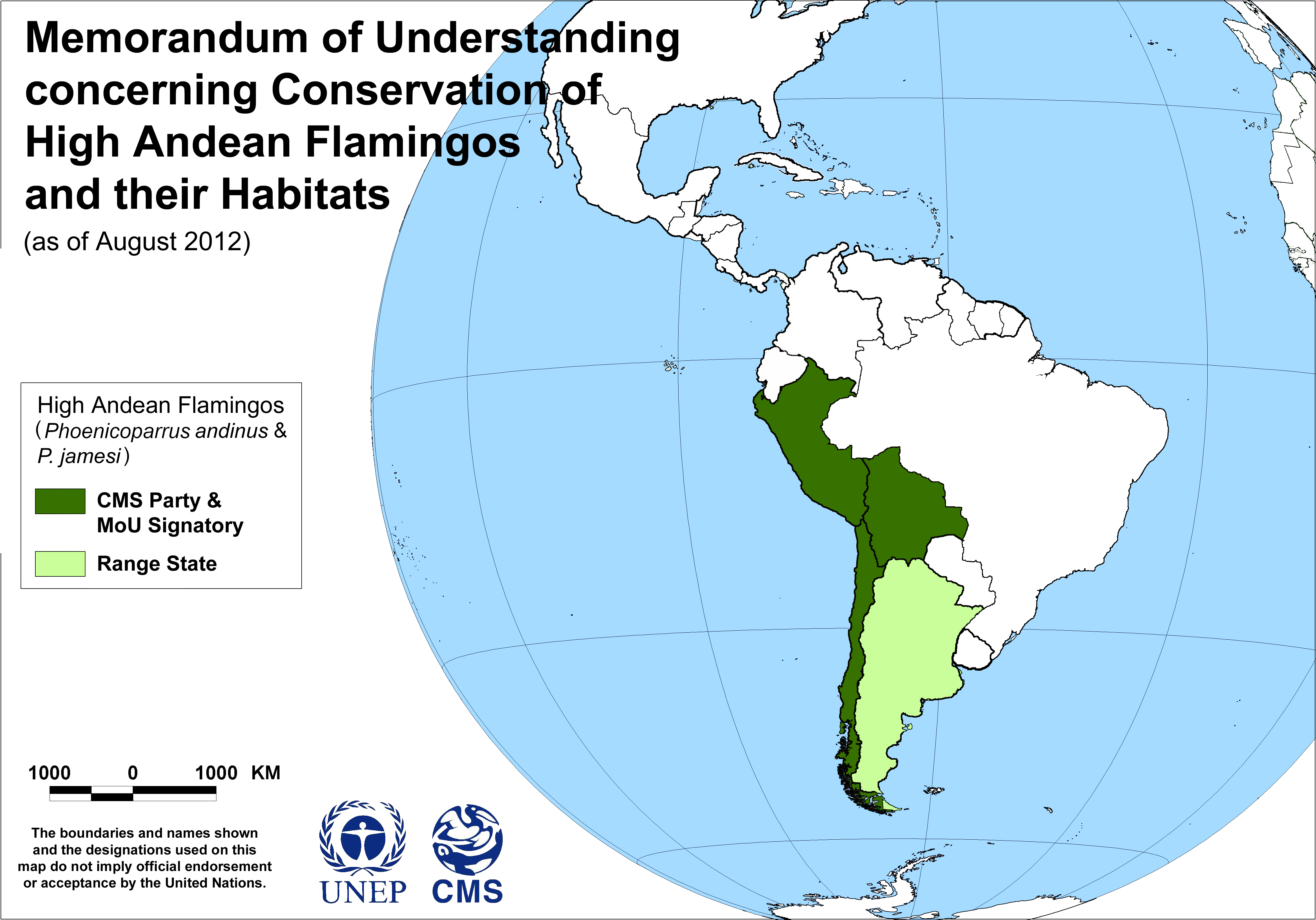 Map of Signatories to the High Andean Flamingos Memorandum of Understanding, as of 15 August 2012